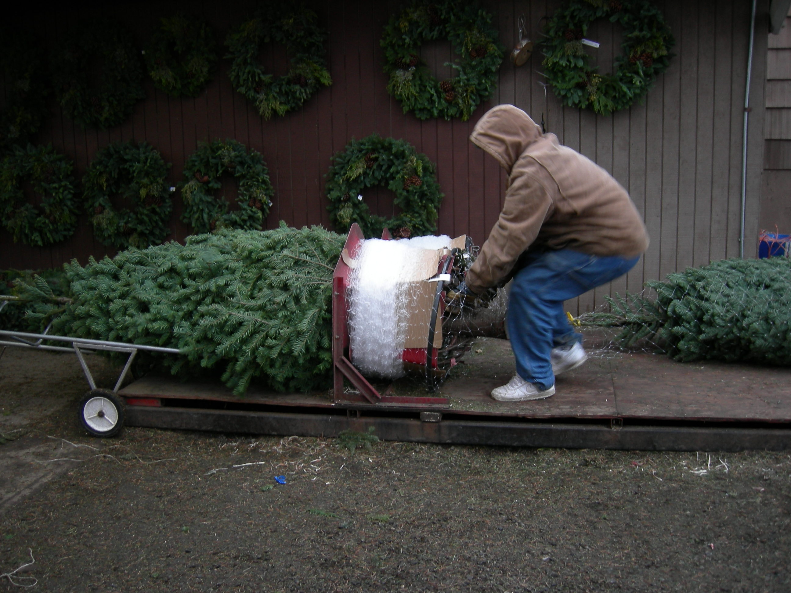 Baling a Christmas tree at Hunter's Tree Farm lot in the 7700 block of 35th Avenue NE, Wedgwood, Seattle, Washington. The actual Hunter's Tree Farm is in the Skokomish Valley, but they retain this plot of land in the city to sell Christmas trees every year. (It's also used in the summer and early autumn to sell berries, but not for much else.)